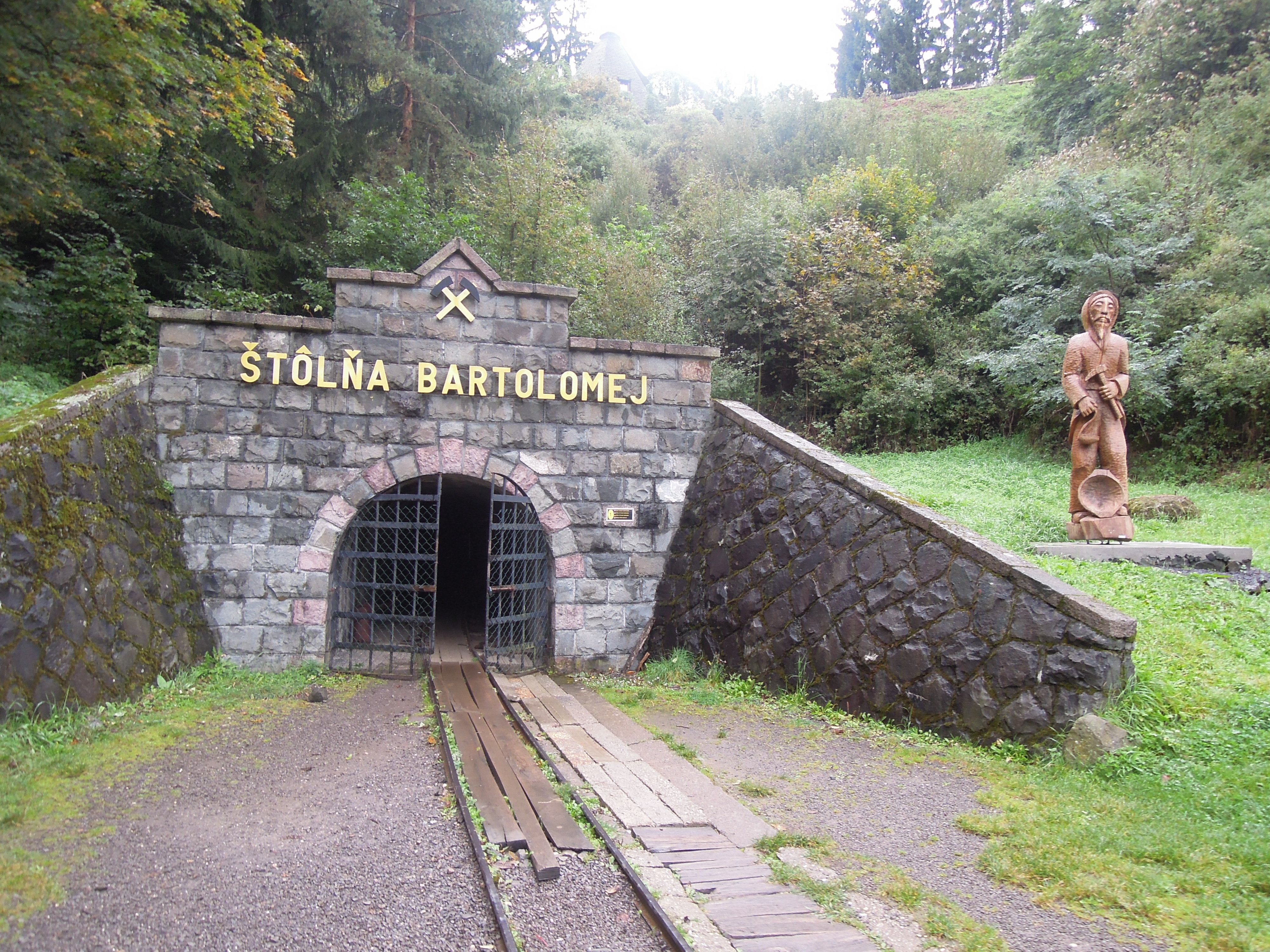 Štôlňa Bartolomej - mining museum location: Banská Štiavnica, Slovakia author: Jan Helebrant license CC BY-SA